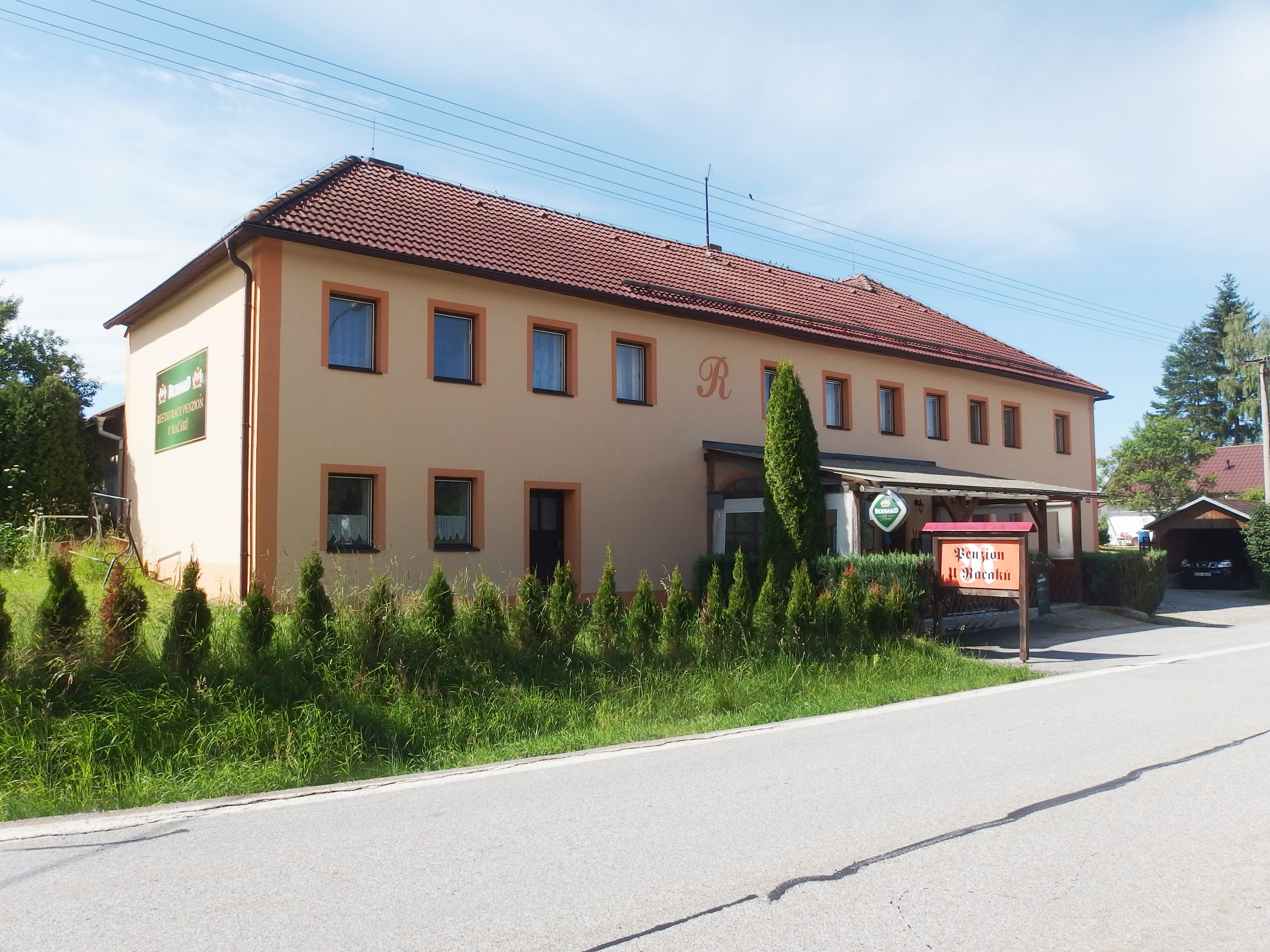 Frymburk, Český Krumlov District, Czechia, part Blatná.